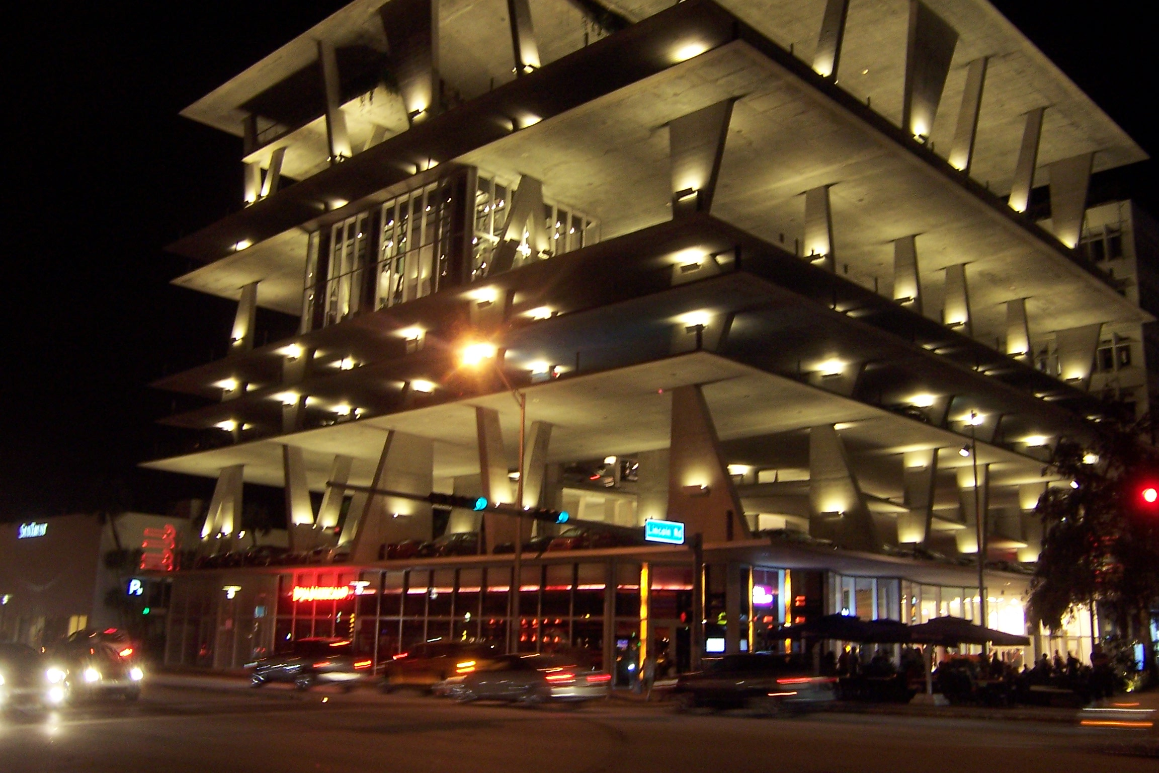 The architecturally acclaimed 1111 Lincoln Road parking garage, as seen at night from diagonally across Alton Road. The Alchemist boutique can be seen at the edge of the fifth floor. Retail shops are on the ground floor, and the neon 1111 sign is visible on the left.